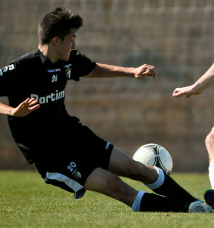 Vítor Gonçalves in action for Portimonense S.C.